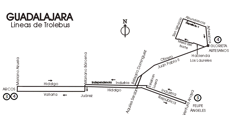 Rutas del Trolebus 2010 Guadalajara.